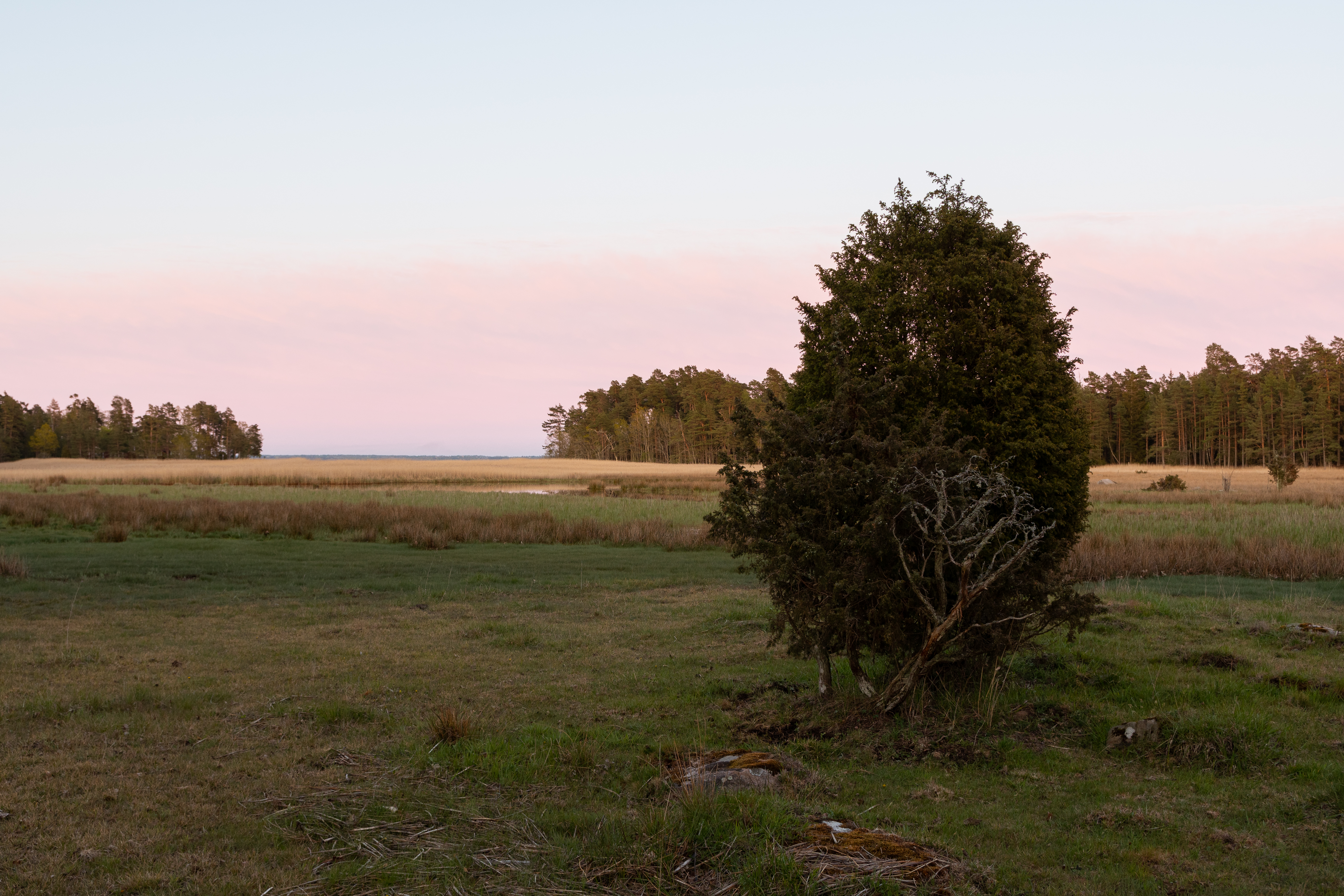 Marsh, Horsö-Värsnäs